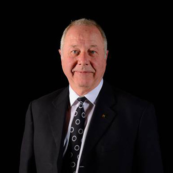 Bill Laing, 2015